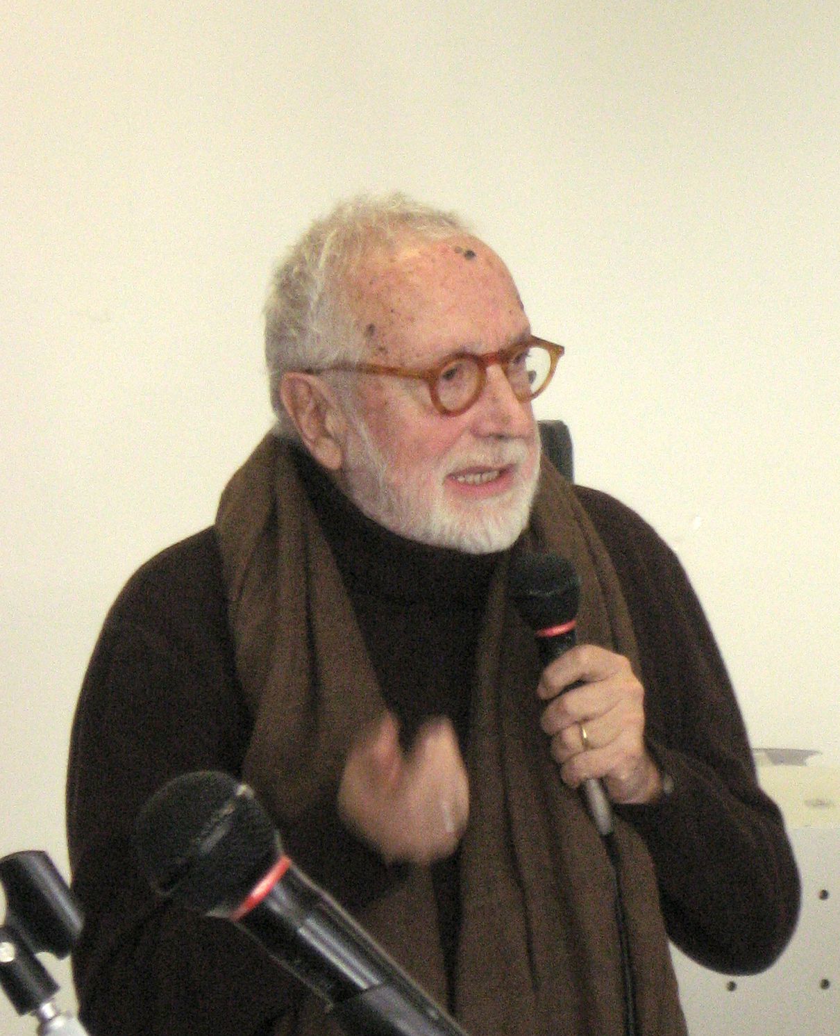 Andrea Branzi at the Domus Academy accademic year inauguration